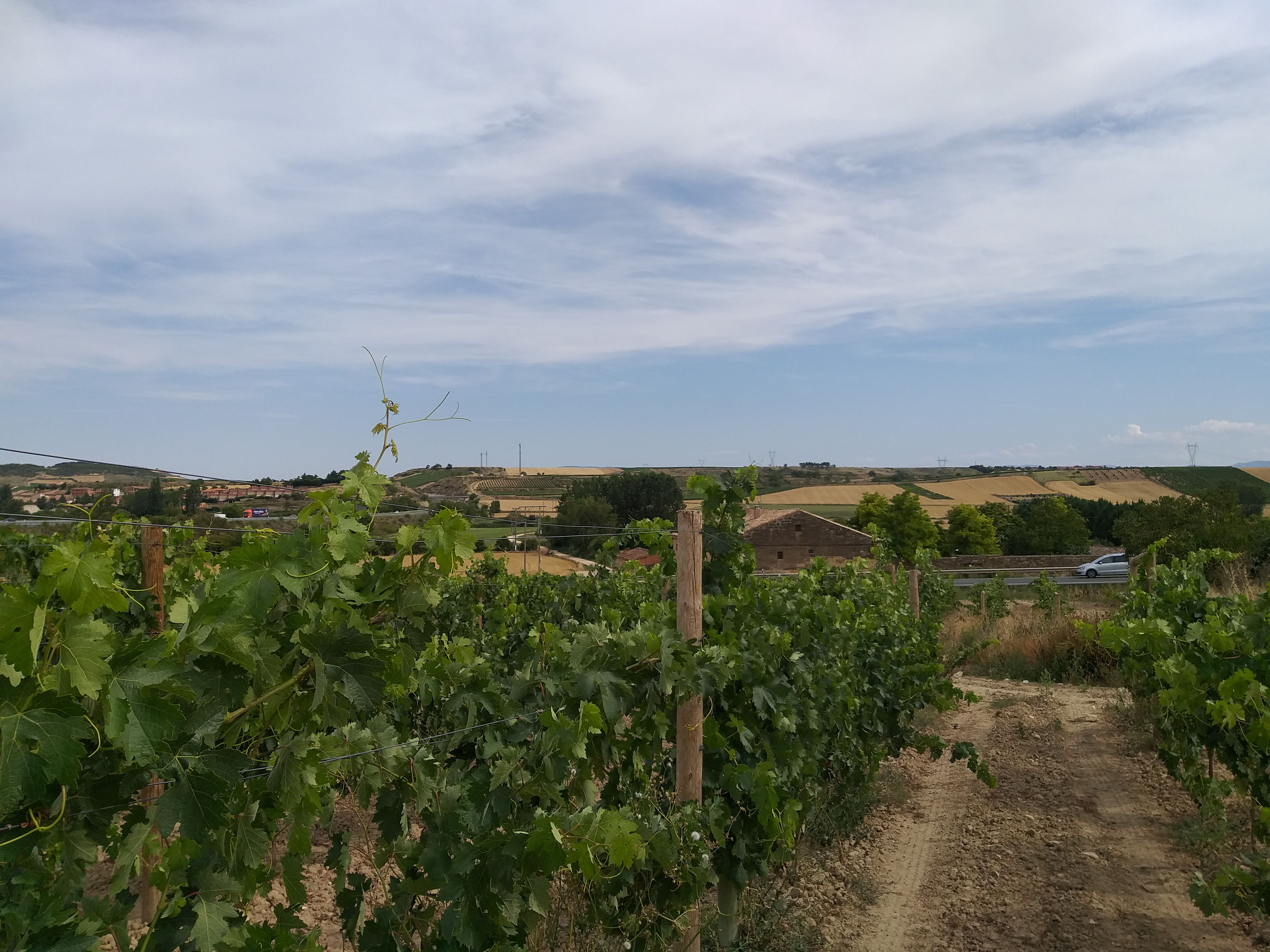 Vineyards in Cuzcurritilla